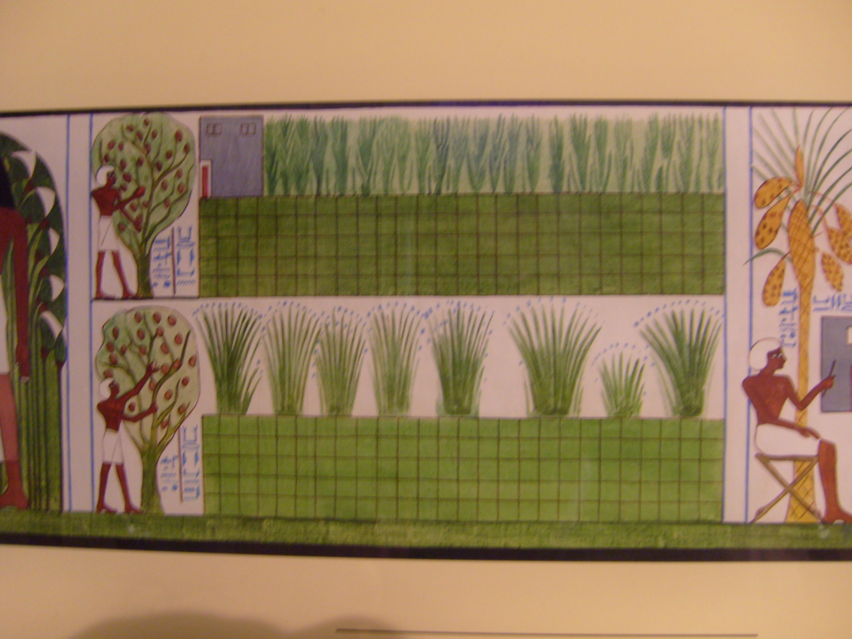 Gardens of Amon at the Temple of Karnak, early 14th century B.C.. From the tomb of Nakh, the chief gardener. (Royal Museum of Art and History, Brussels).